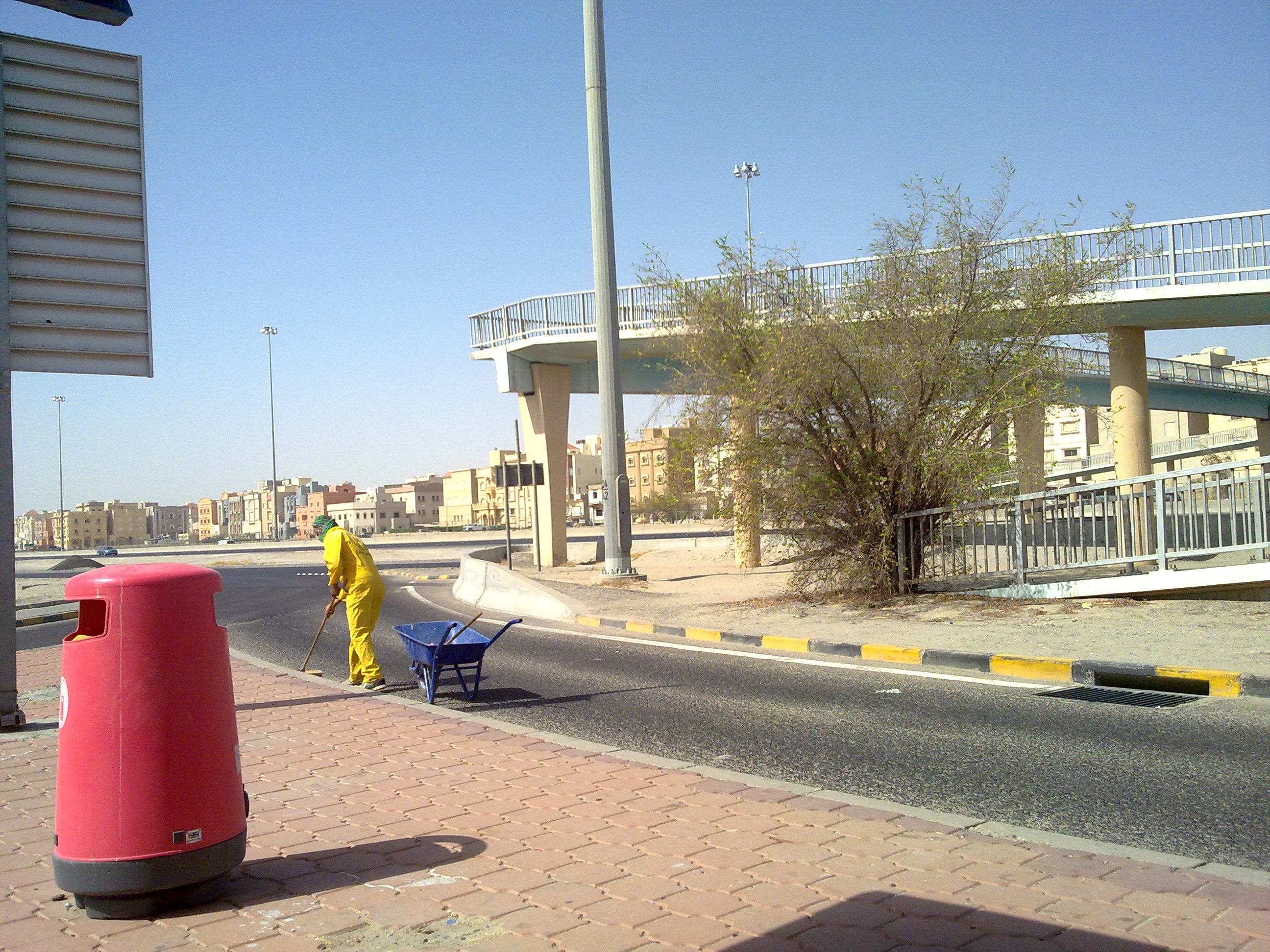 photos by irvin calicut This media file is uploaded with Malayalam loves Wikimedia event - 3.